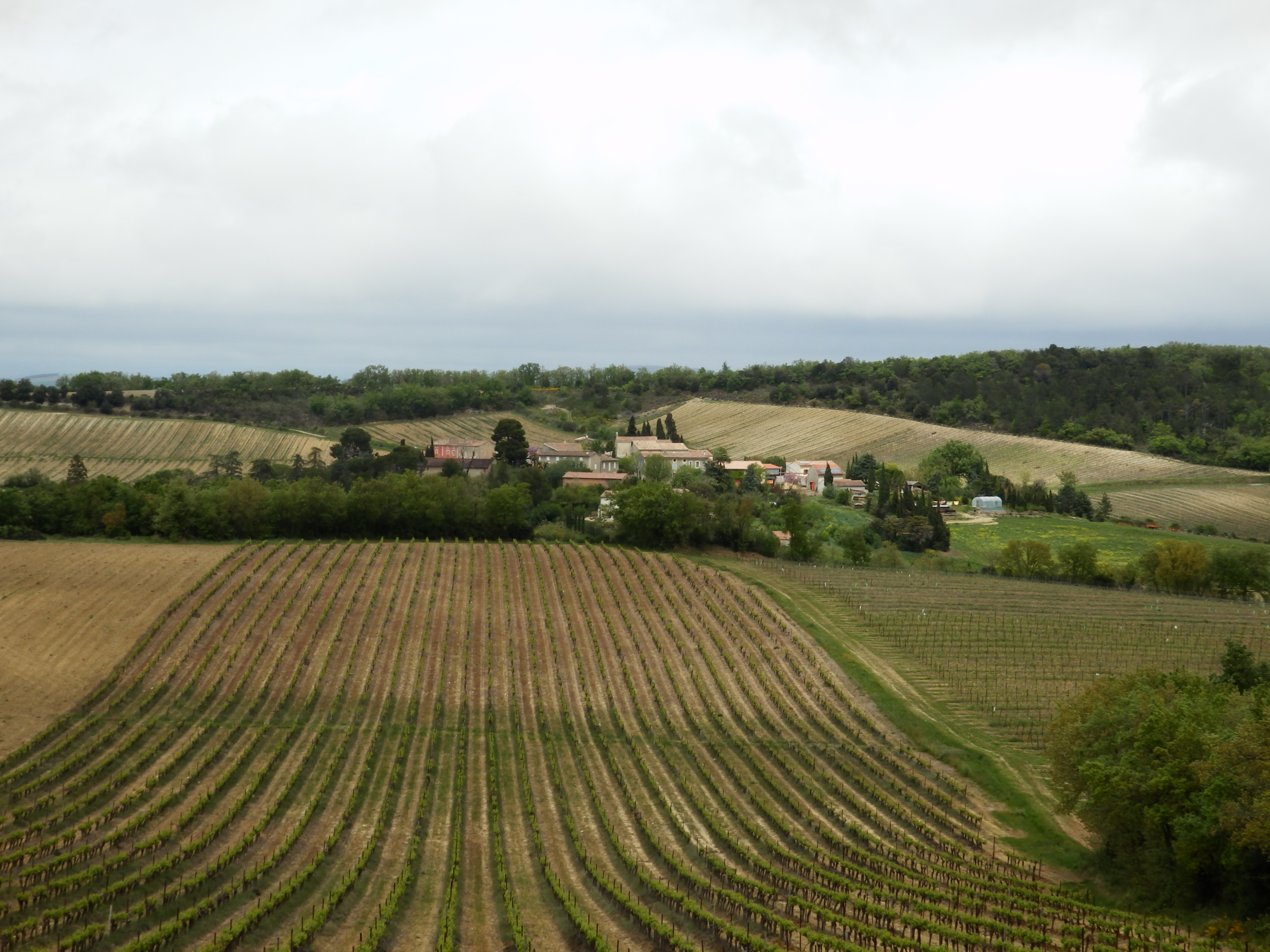 View of Pech Salamou, Donazac, Aude, France